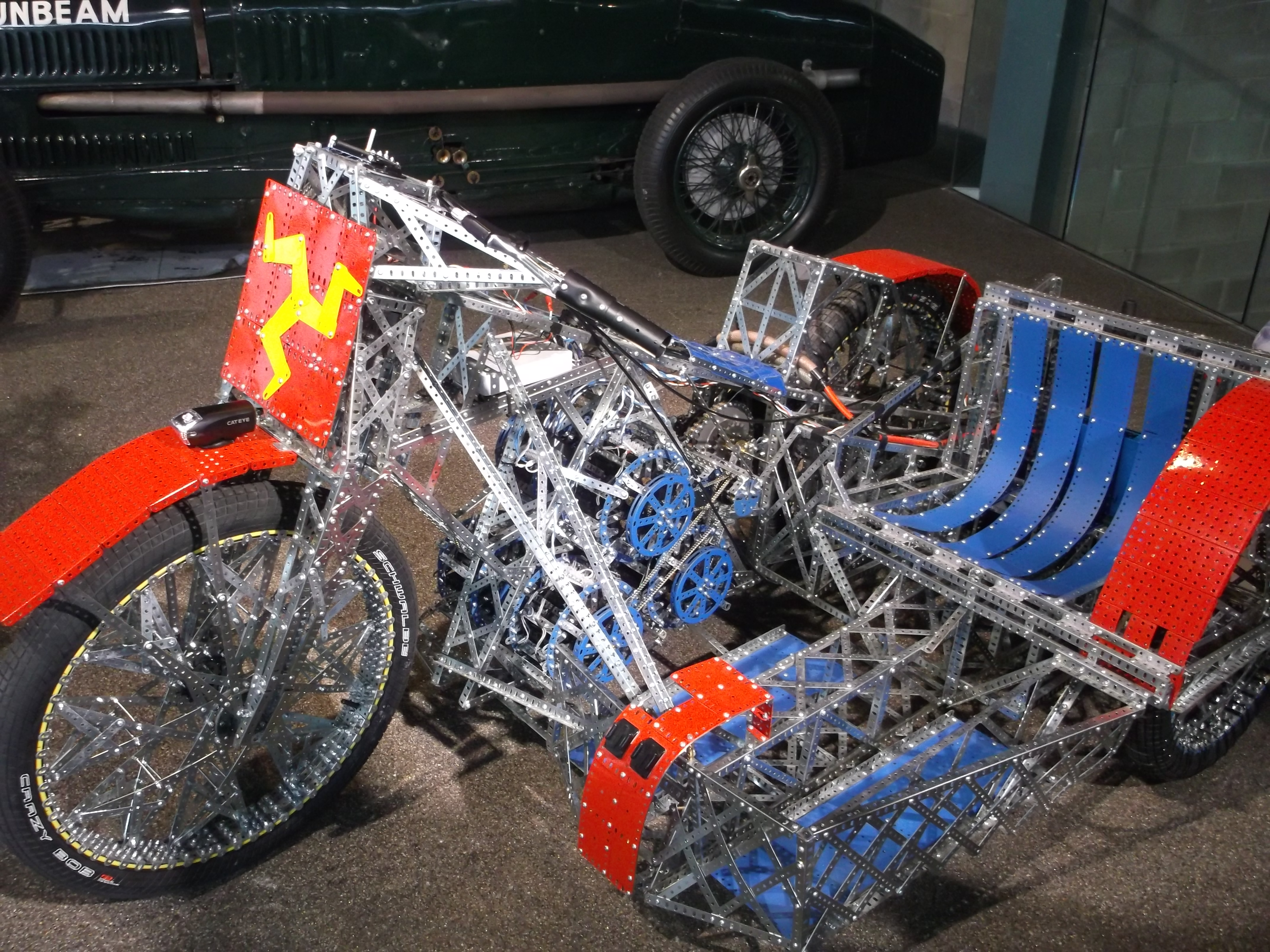 This motorcycle was made of Meccano - a children's construction toy. It was made for a special edition of the TV programme James May's Toy Stories. On display at the National Motor Museum in Beaulieu, UK